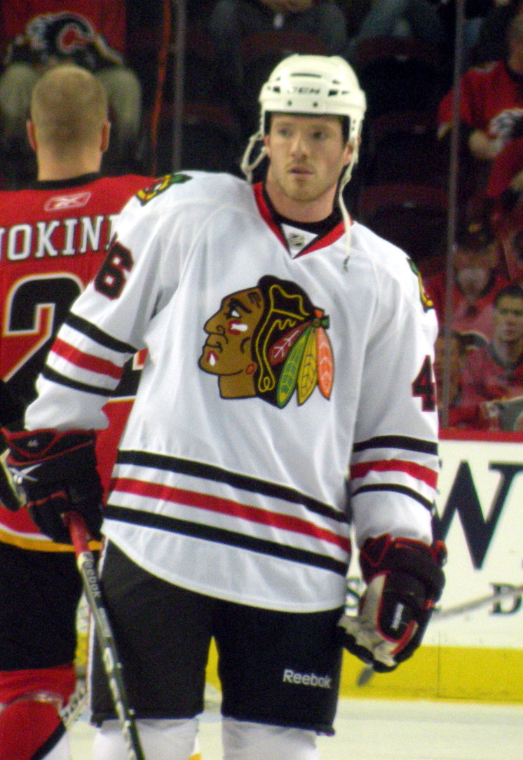 Chicago Blackhawks forward Colin Fraser during warm up prior to a National Hockey League playoff game against the Calgary Flames, in Calgary.